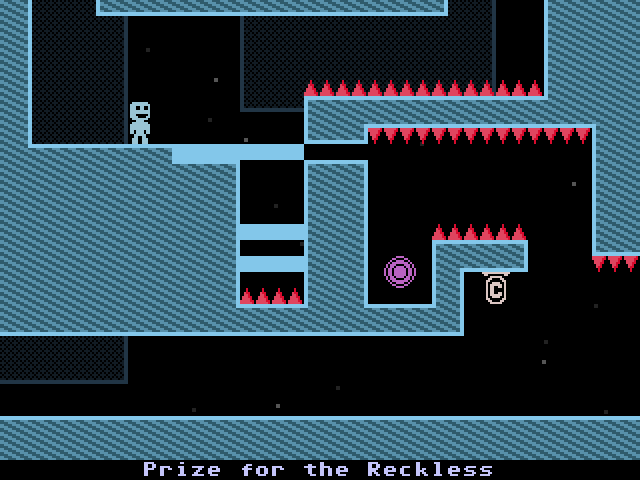 VVVVVV screenshot. Released in 2010, the game was developed by Terry Cavanagh.